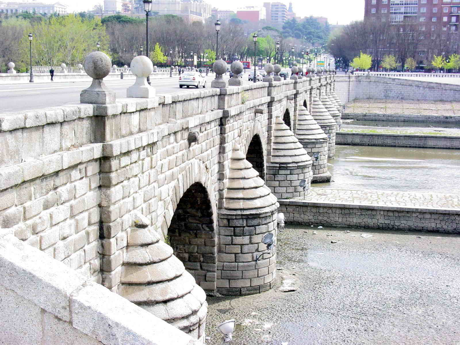 Segovia Bridge in Madrid (Spain), from the left bank of River Manzanares.